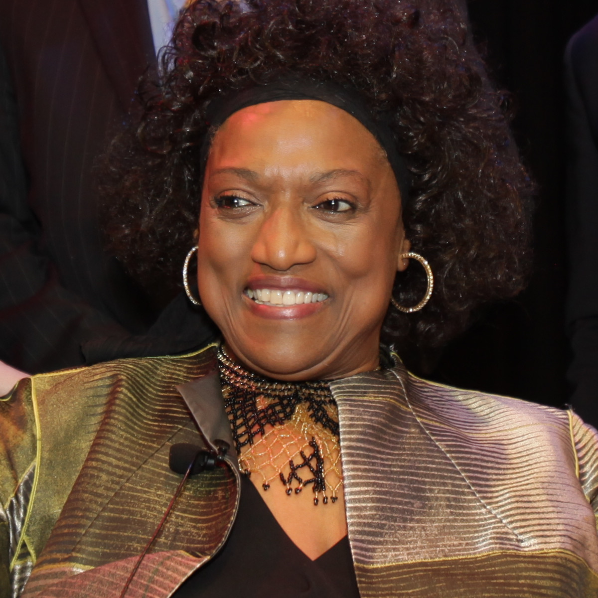 Photo by Jati Lindsay